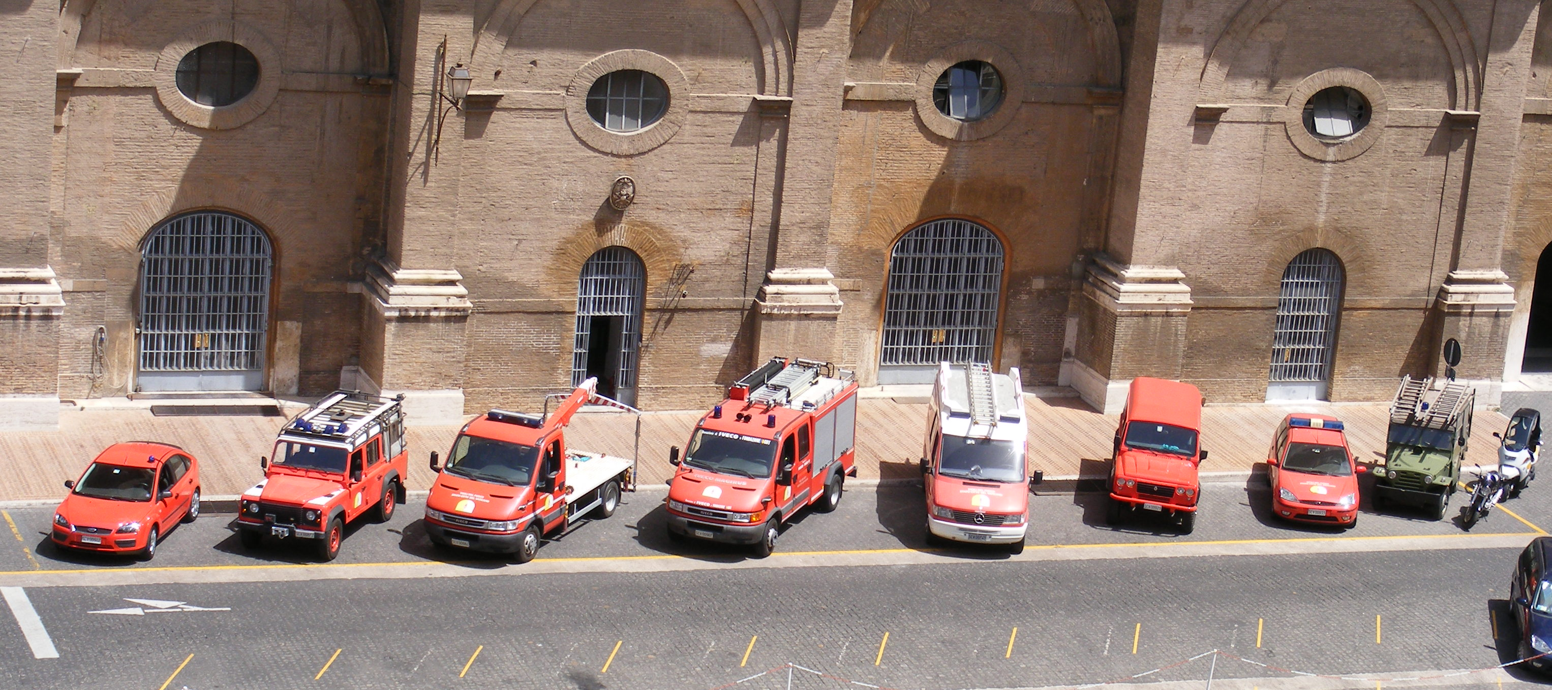 Fleet of the Vatican Firefighters l.t.r. Ford Focus Mk I Santana PS10 Land Rover Defender Iveco Ford Focus Mk II Fiat 1101 Campagnola